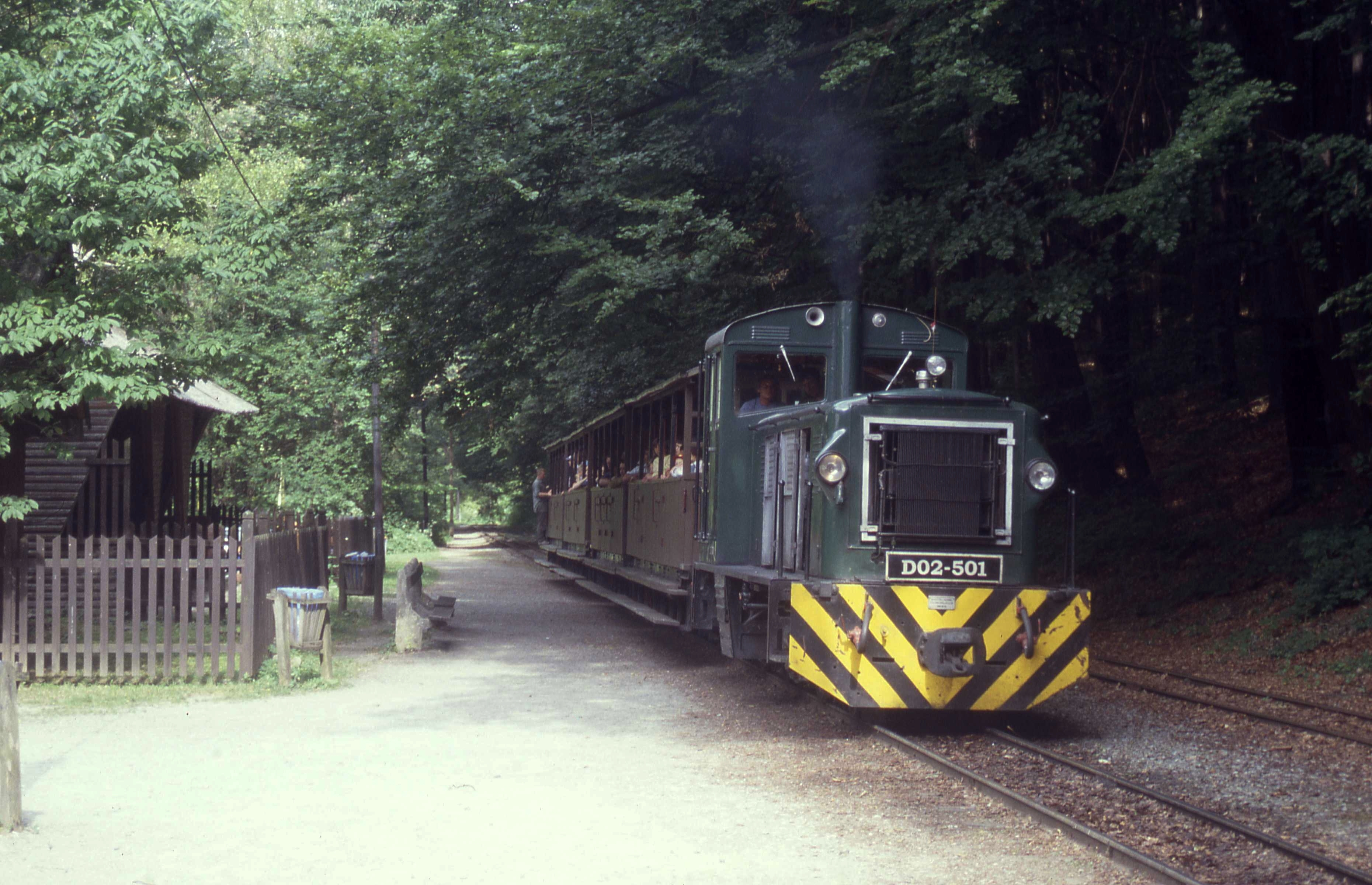 ex-Forest railway toerist train close to Miskolc